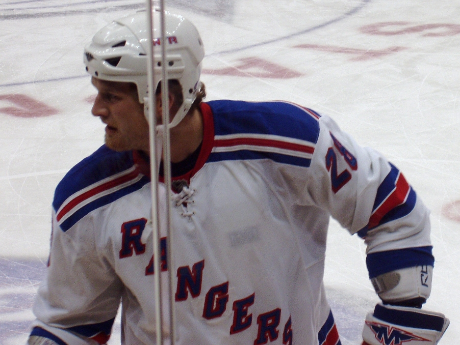 Colton Orr during pre-game warmup in Los Angeles, Ca